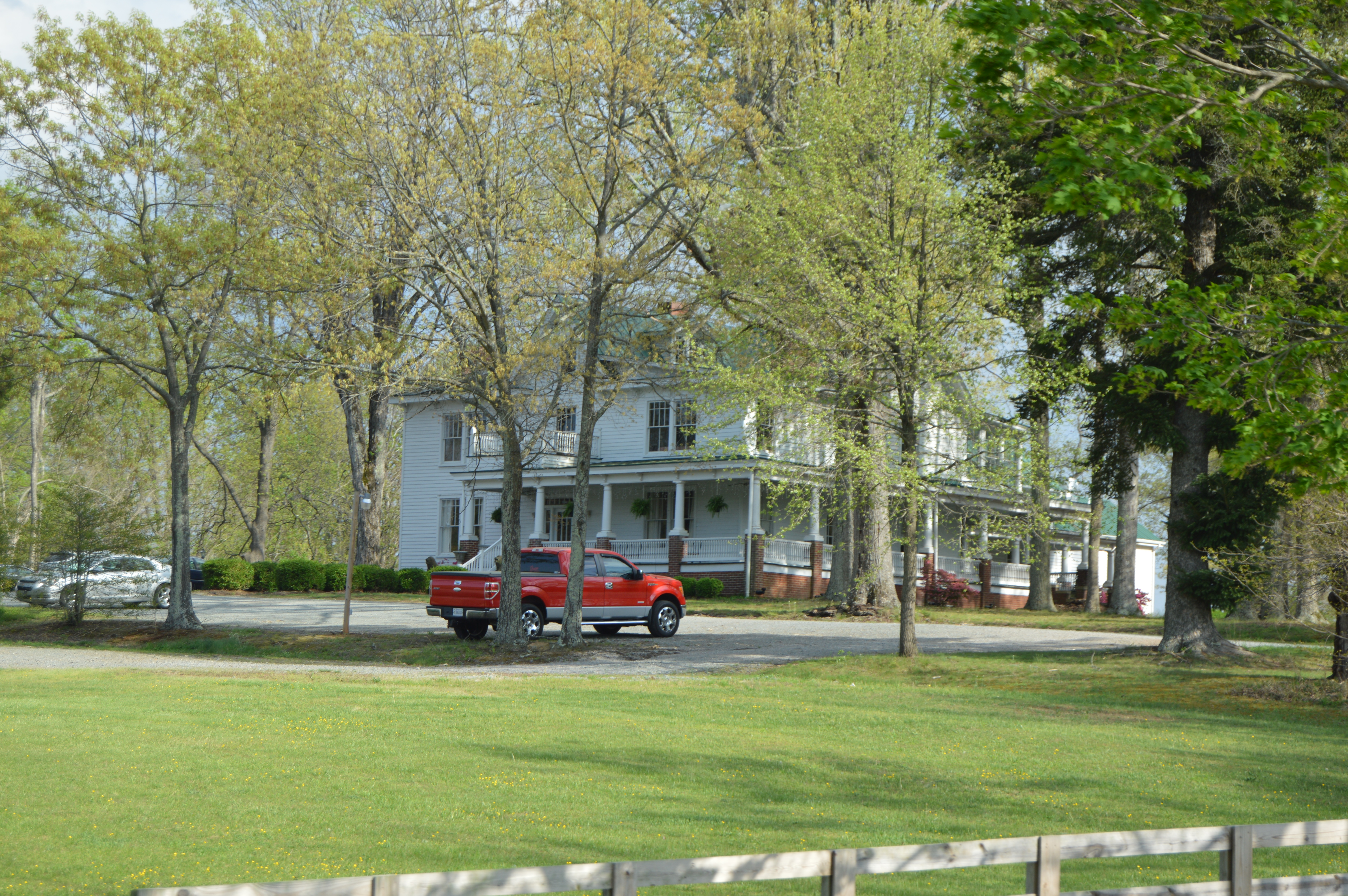 Northern side and western front of the Thomas Claiborne Creasy House, located at 415 S. Main Street in Gretna, Virginia, United States. Built in 1840 and greatly expanded more than forty years later, it is listed on the National Register of Historic Places.